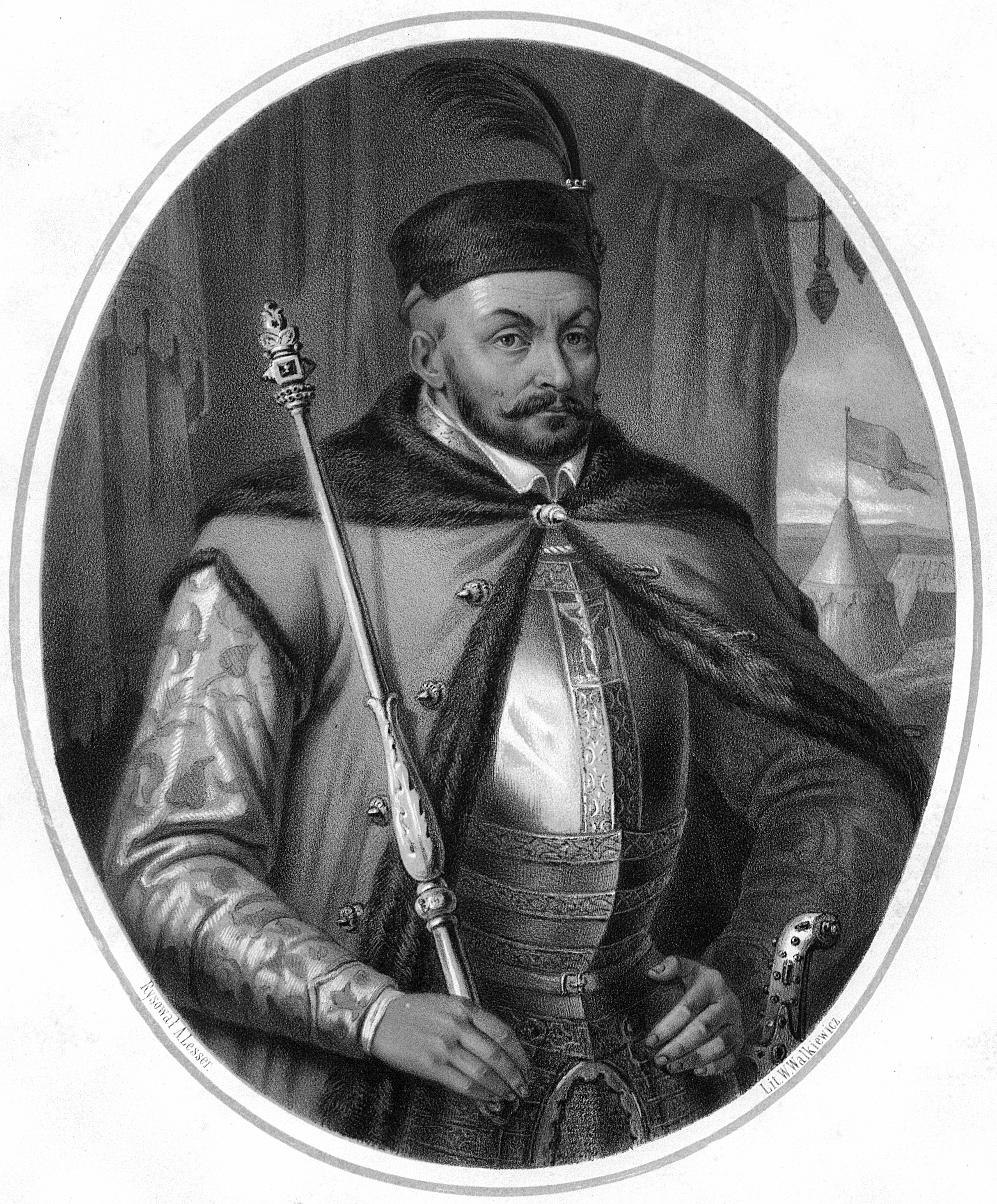 Stephen Bathory, King of Poland